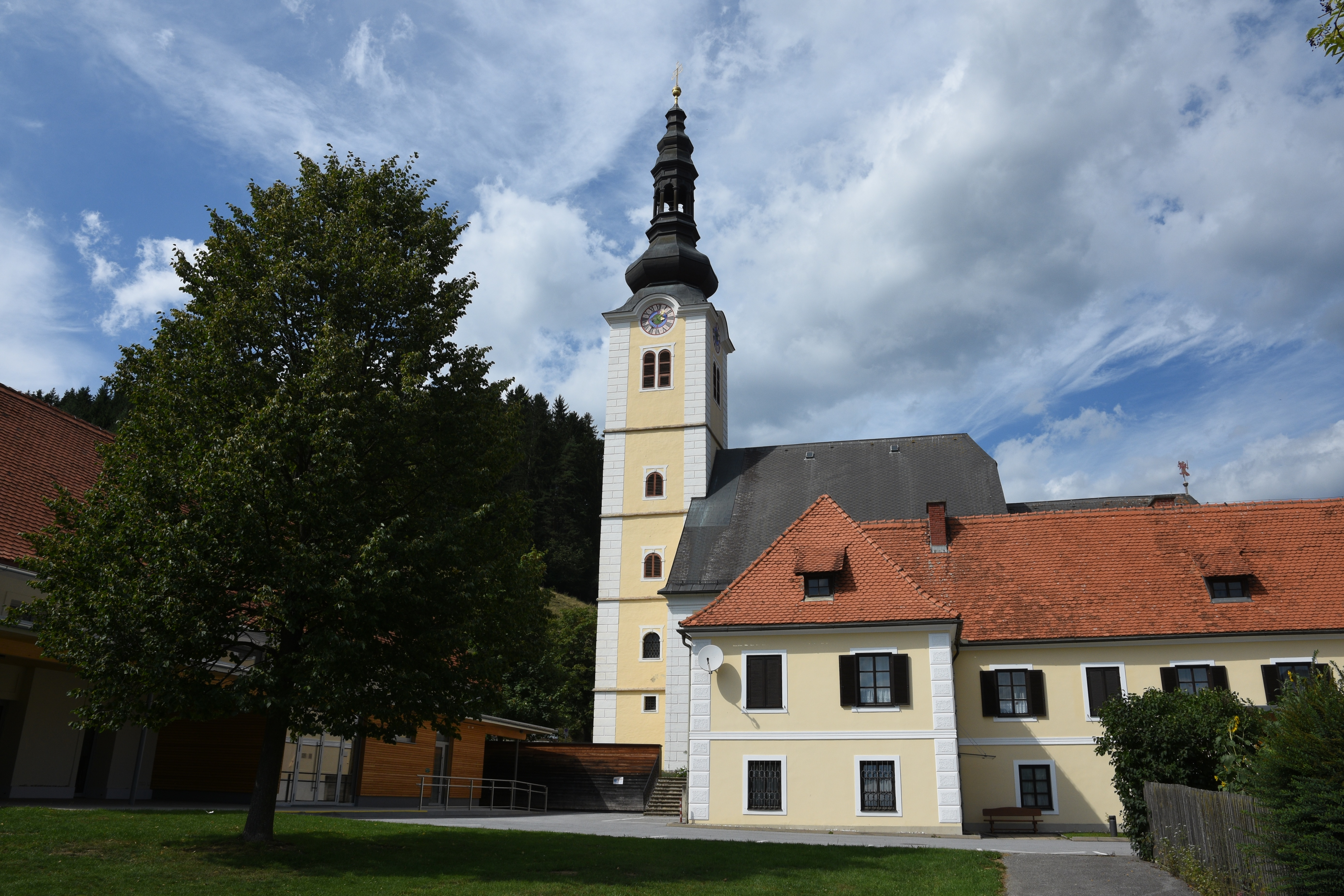 Church Veitskirche Passail